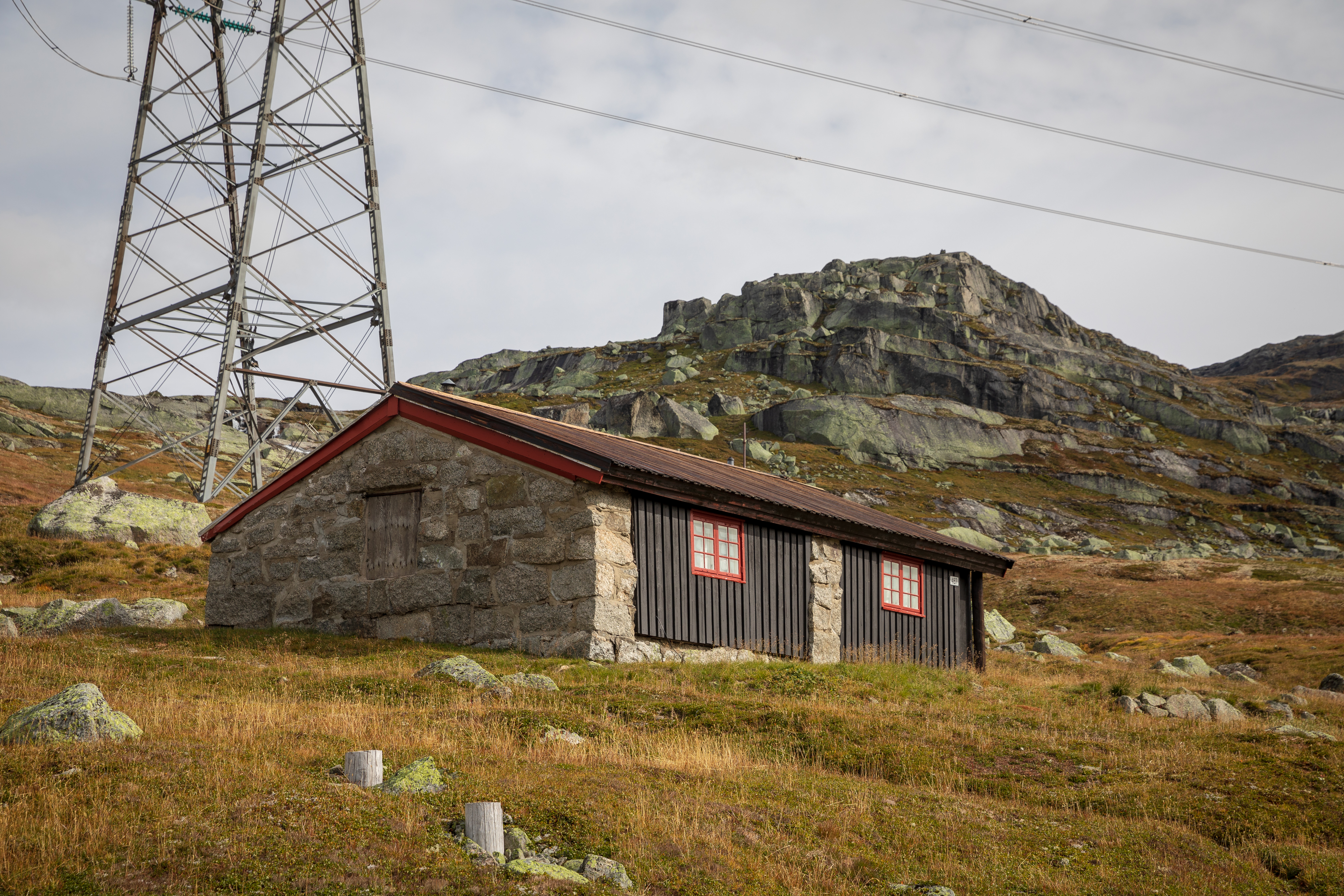 From the Navvy Road (local "rallarvegen") along the Bergen Railway.